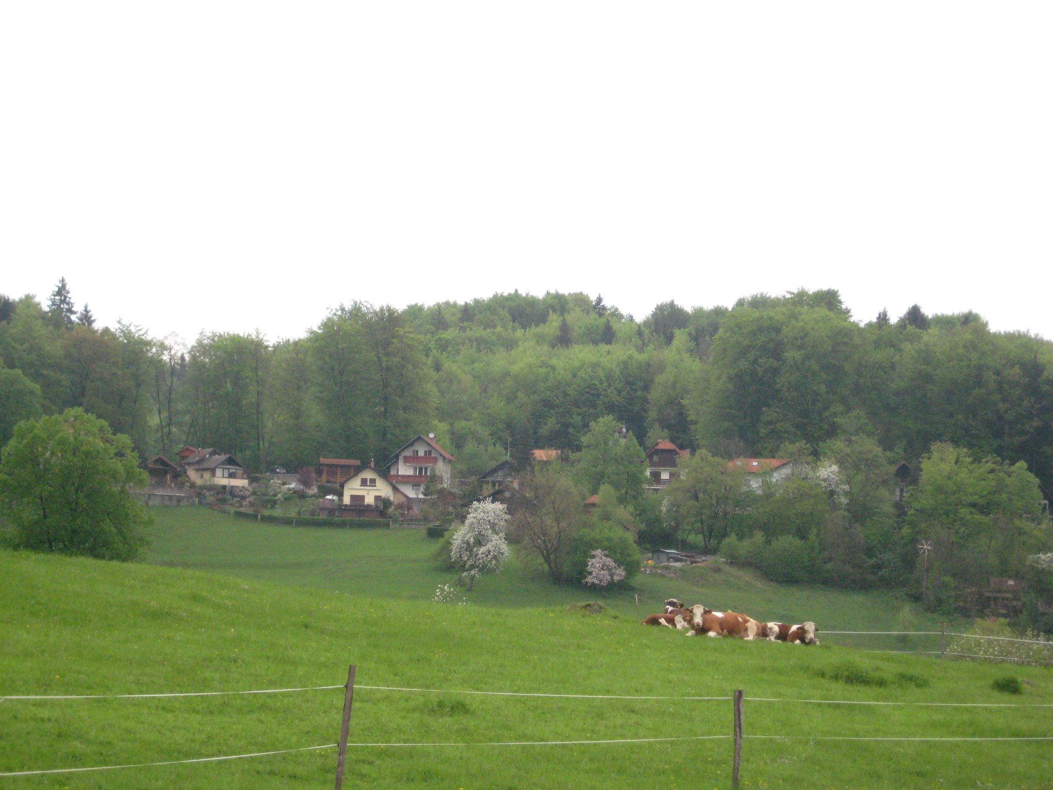 (Spodnje) Dobeno, village in Slovenia